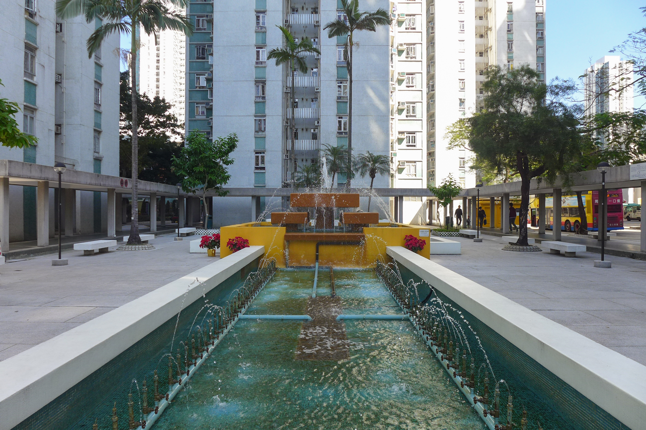 City One Shatin Fountain